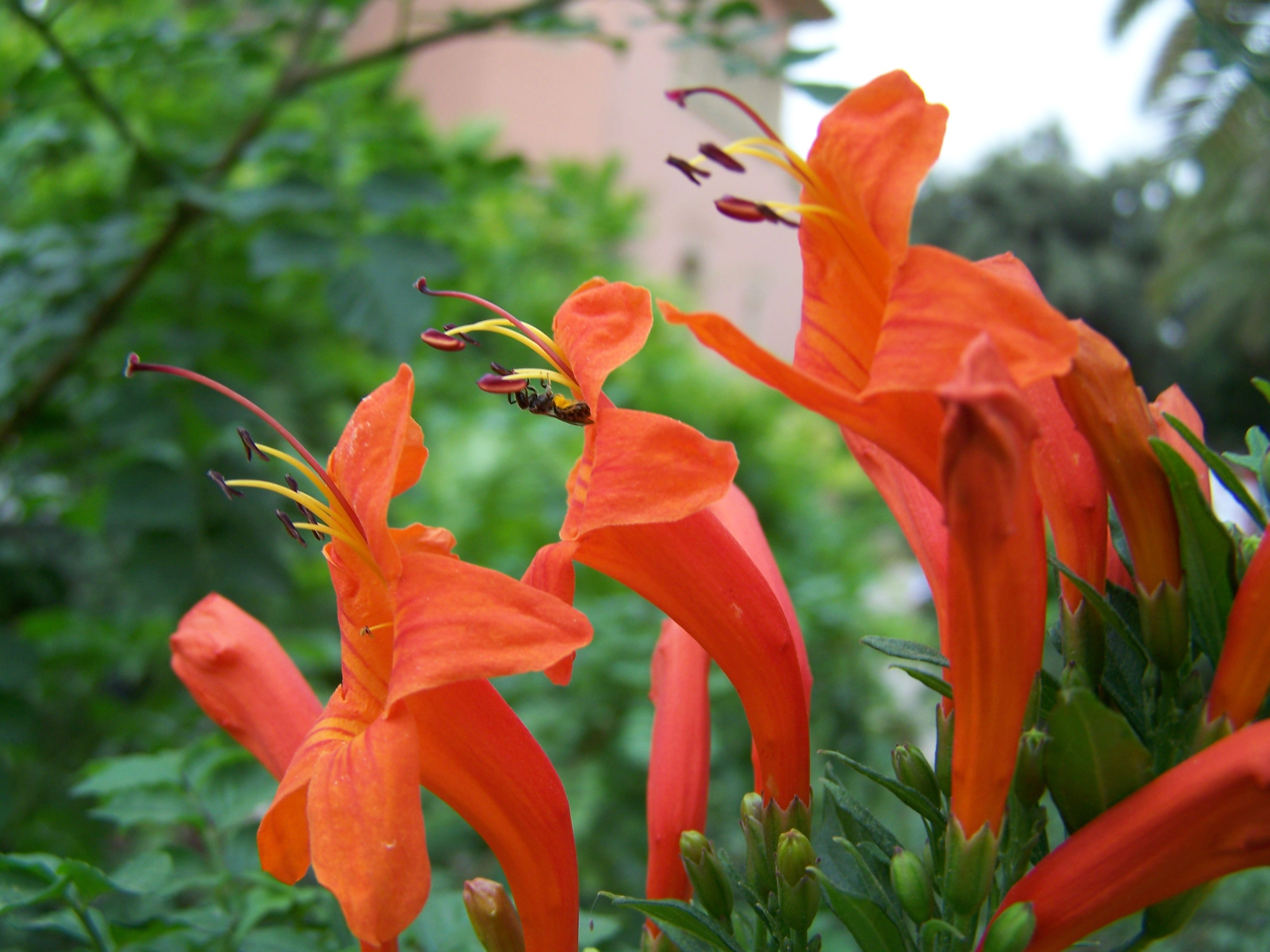 Tecoma capensis, 3 flowers with a pollen eating bee, photo taken in Park Güell, Barcelona